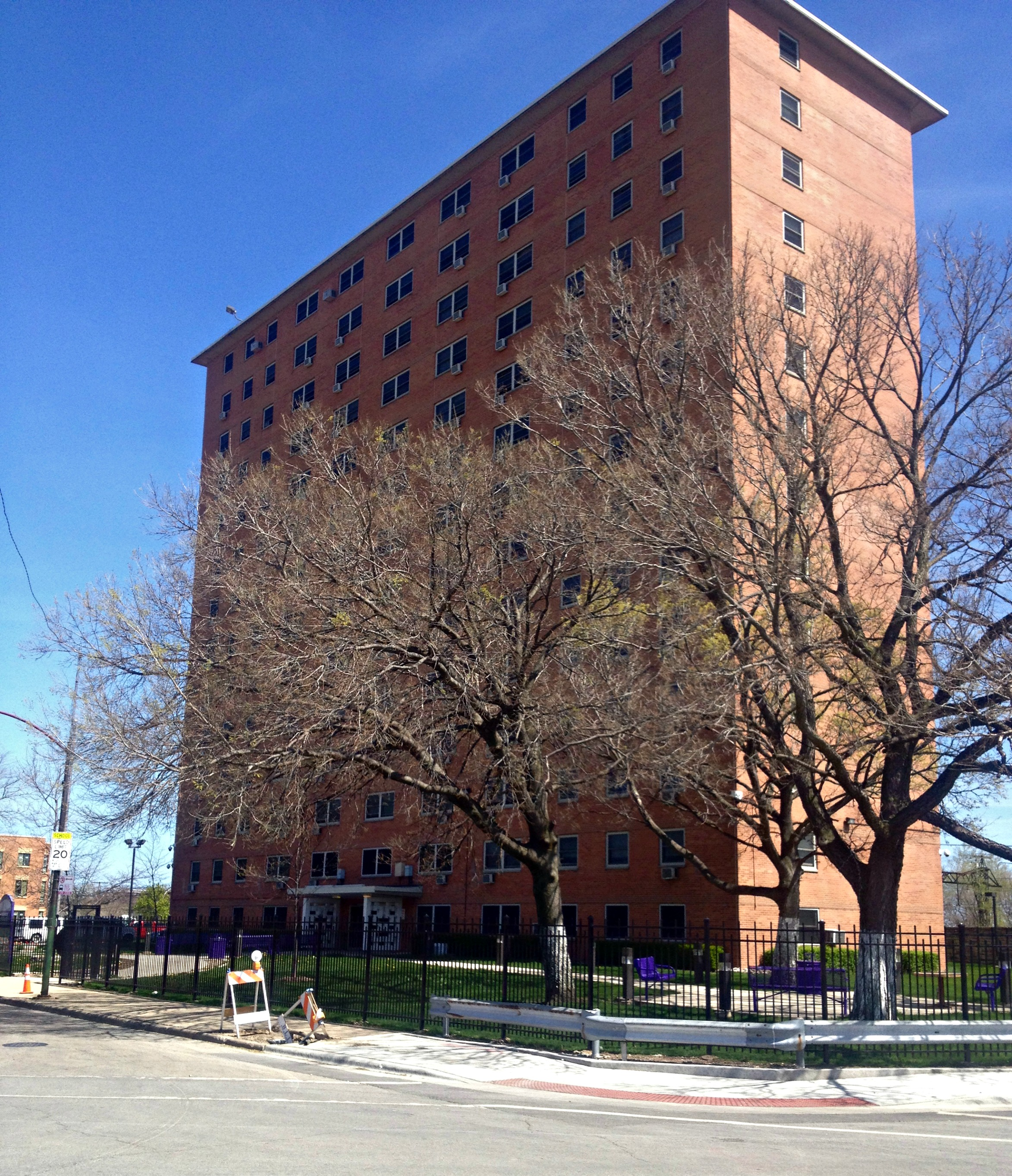 (Chicago Housing Authority) Vivian Gordon Harsh Apartments, Bronzeville